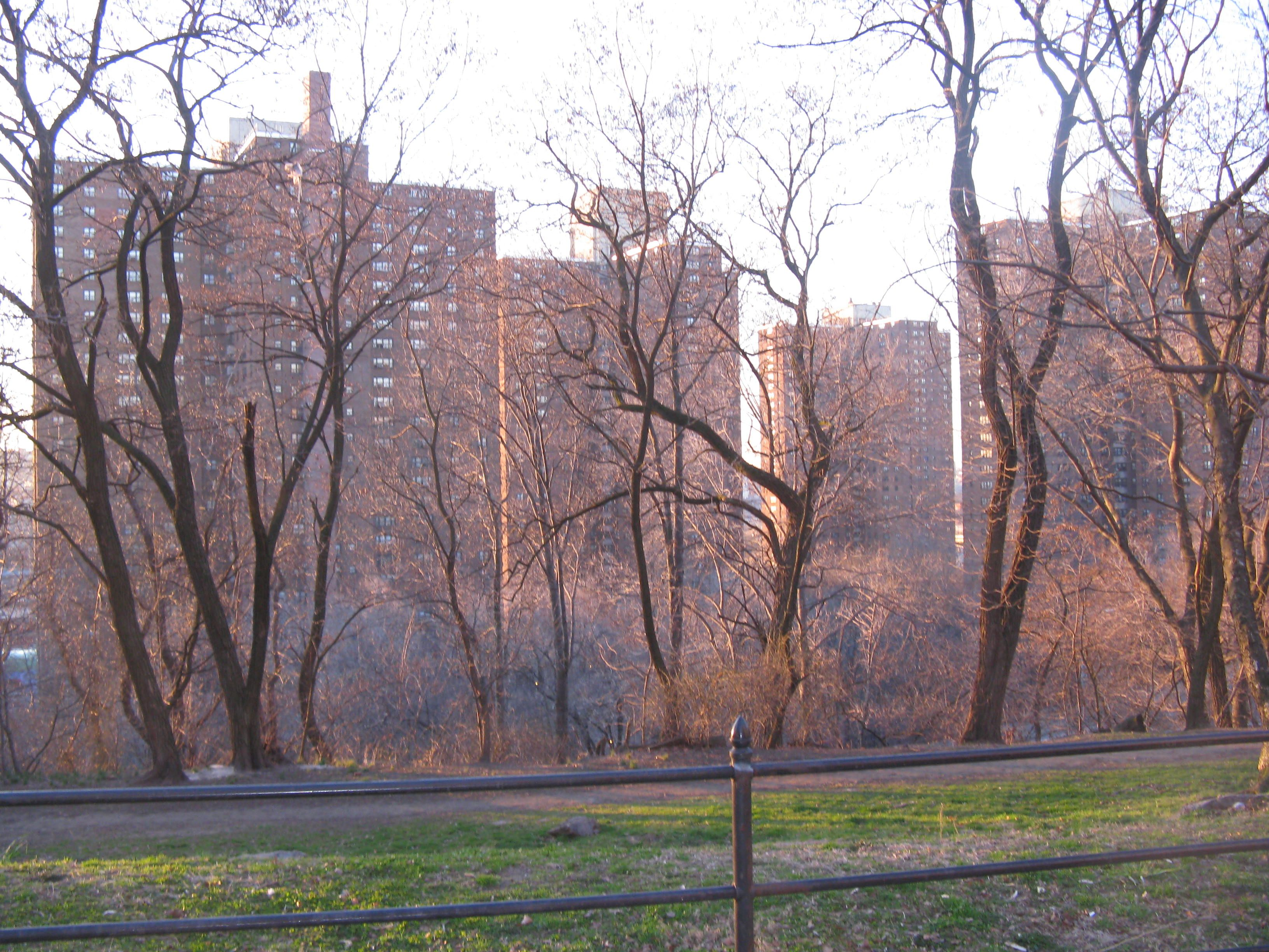 Looking southeast at Polo Grounds Towers Housing Complex from Coogan's Bluff in Manhattan, New York City, on a sunny morning.